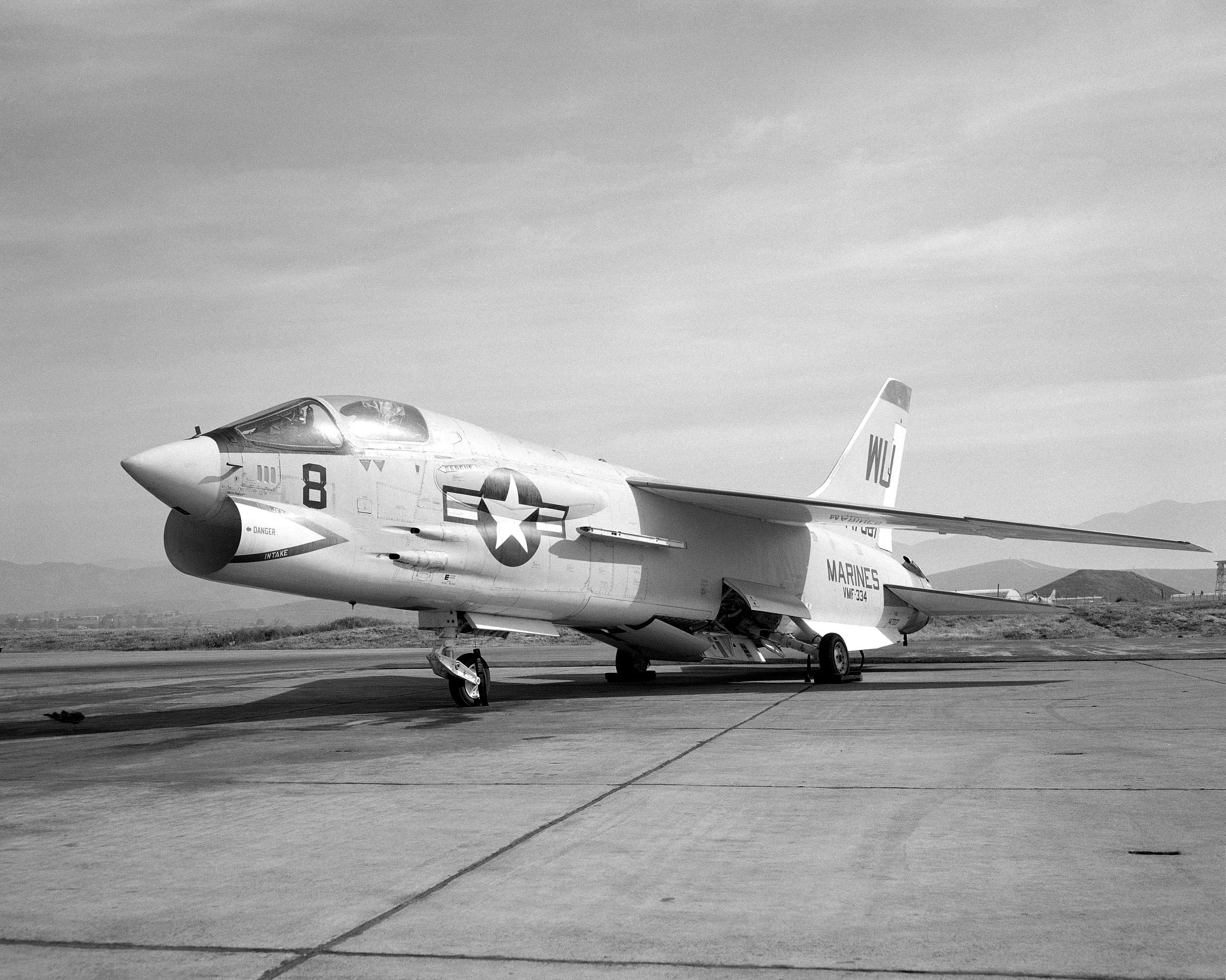 A U.S. Marine Corps Vought F-8C Crusader (BuNo 147007) of Marine Fighter Squadron 334 (VMF-334) parked on the flight line at Marine Corps Air Station El Toro, California (USA), on 18 March 1966.